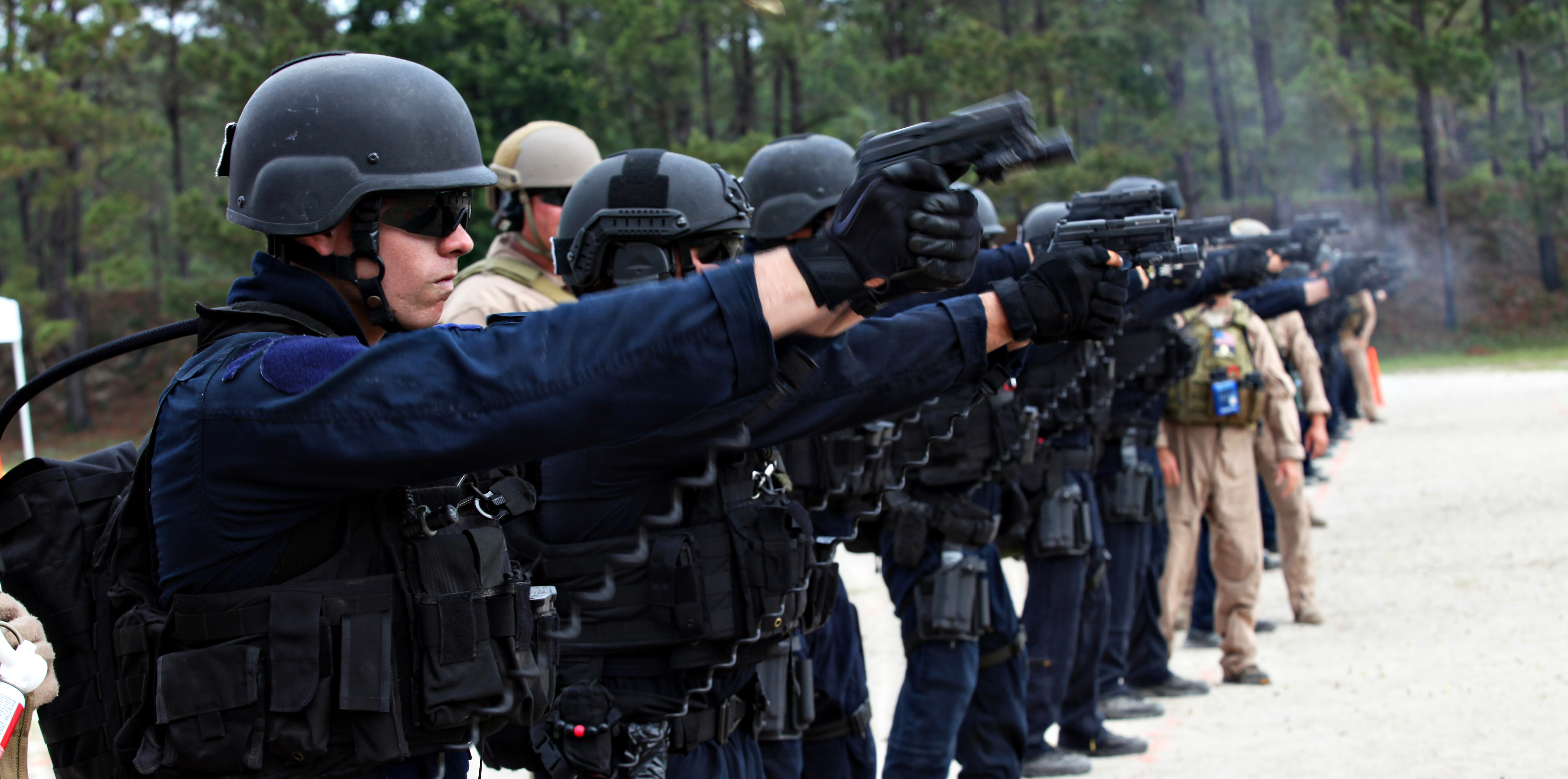 Students of the Basic Tactical Operations Course at the Joint Maritime Training Center aboard Marine Corps Base Camp Lejeune fire Sig Sauer P229s at the range. The seven-week class provides the basics of marksmanship to Coast Guardsmen within the deployable specialized forces community. U.S. Marine Corps photo by Sgt. Thomas J. Griffith.